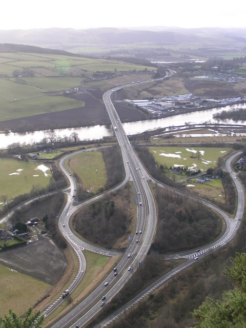 The approach to Friarton Bridge, near Perth, Scotland, seen from Kinnoul Hill